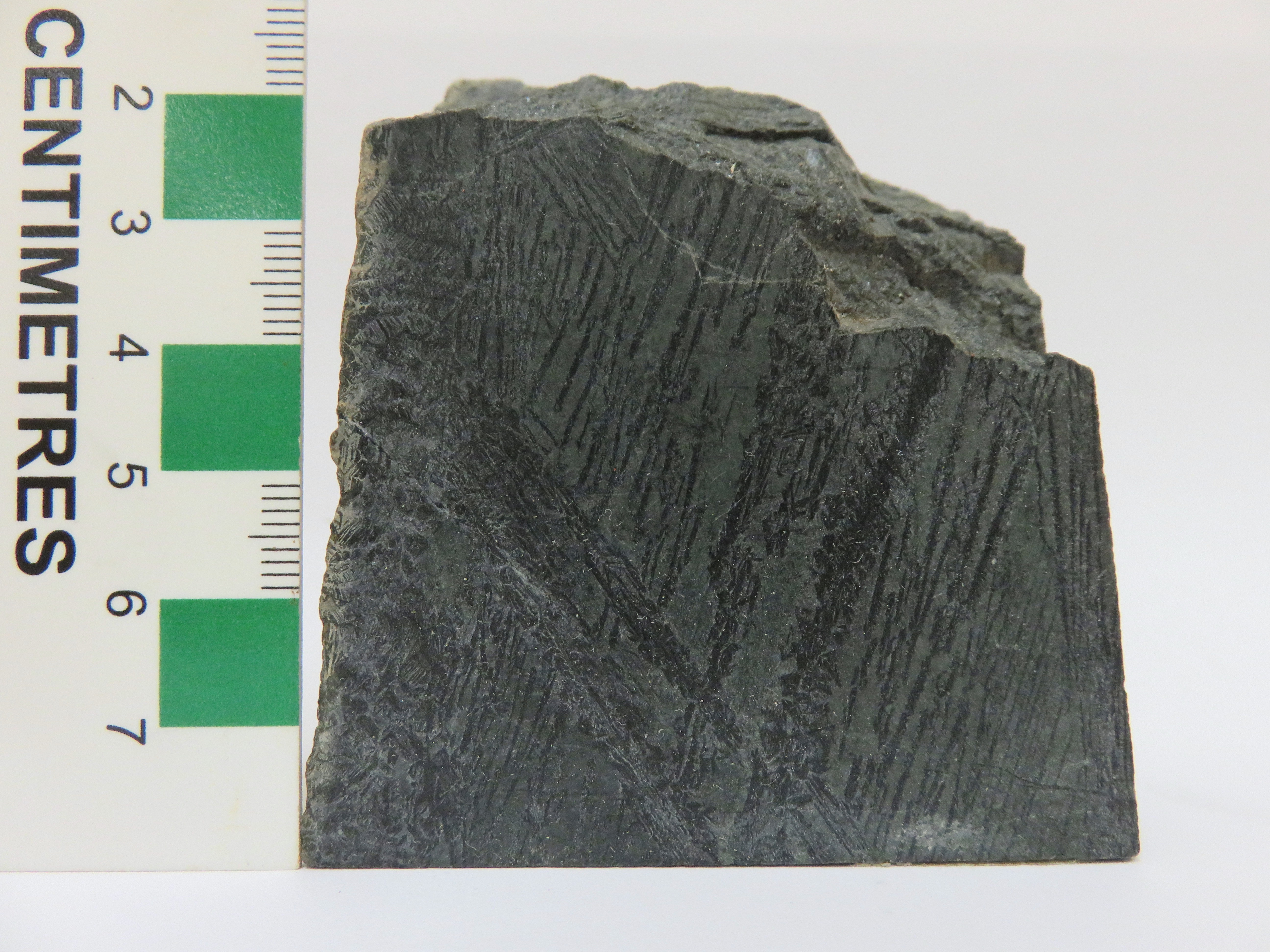 Komatiite from the University of Saskatchewan collection. Scale is in cm. Sample ID: M625b